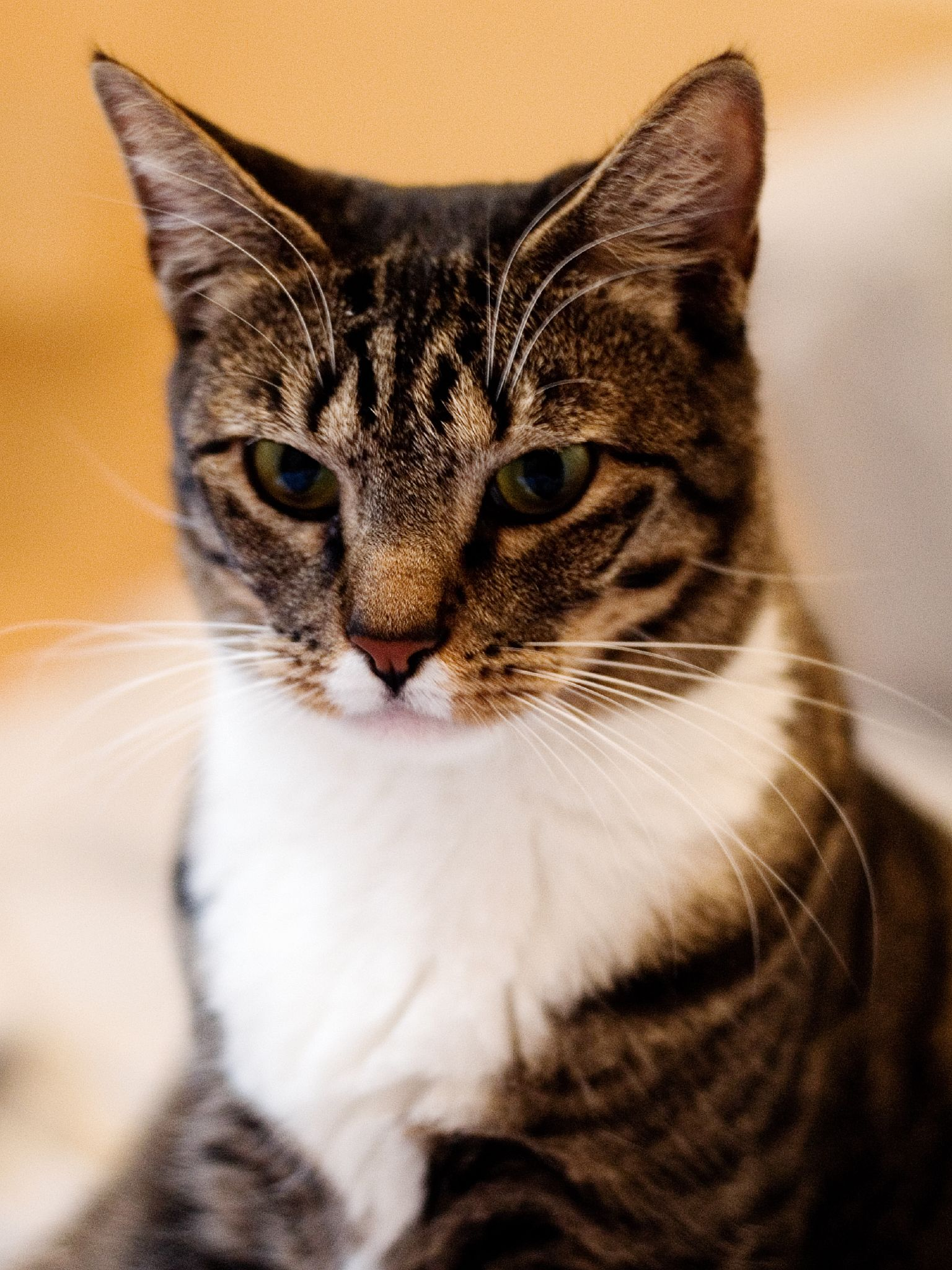 American Shorthair cat showing the effects of the white spotting gene.margaret catwood